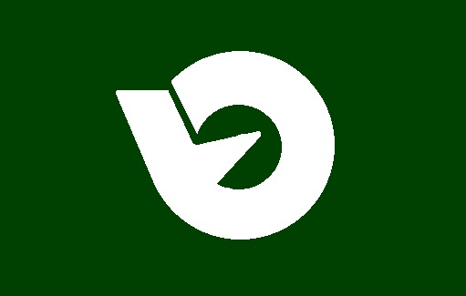 Flag of Kotohira Kagawa